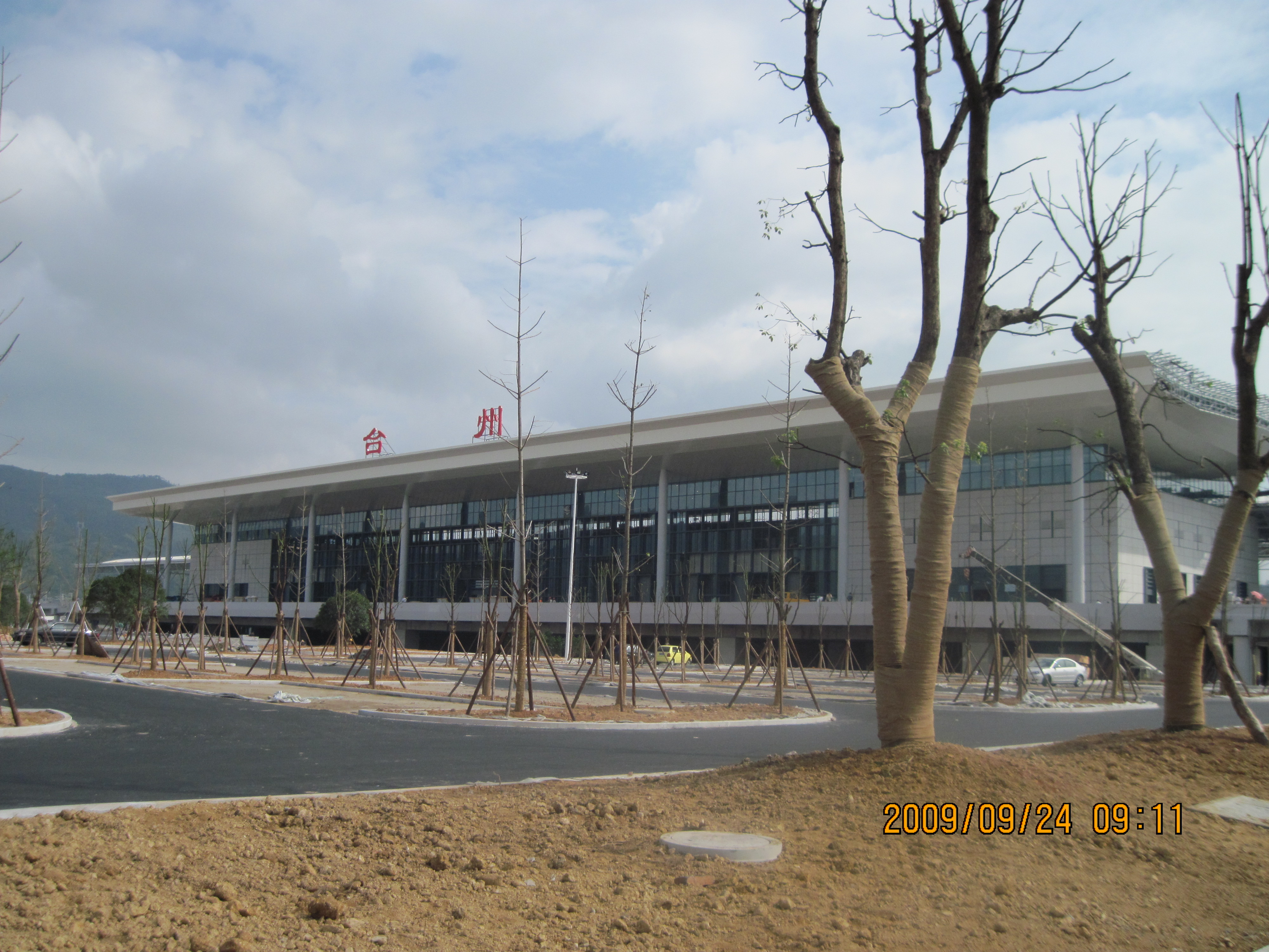 Taizhou Railway Station